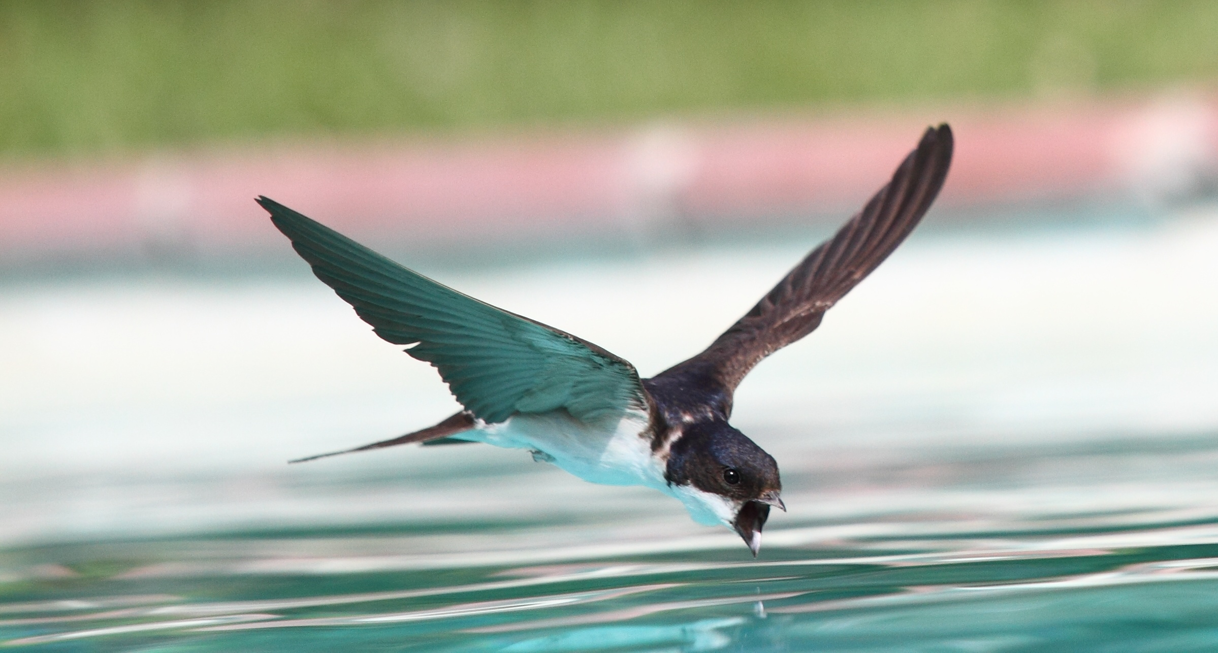 A swallow drinking while flying over a swimming pool